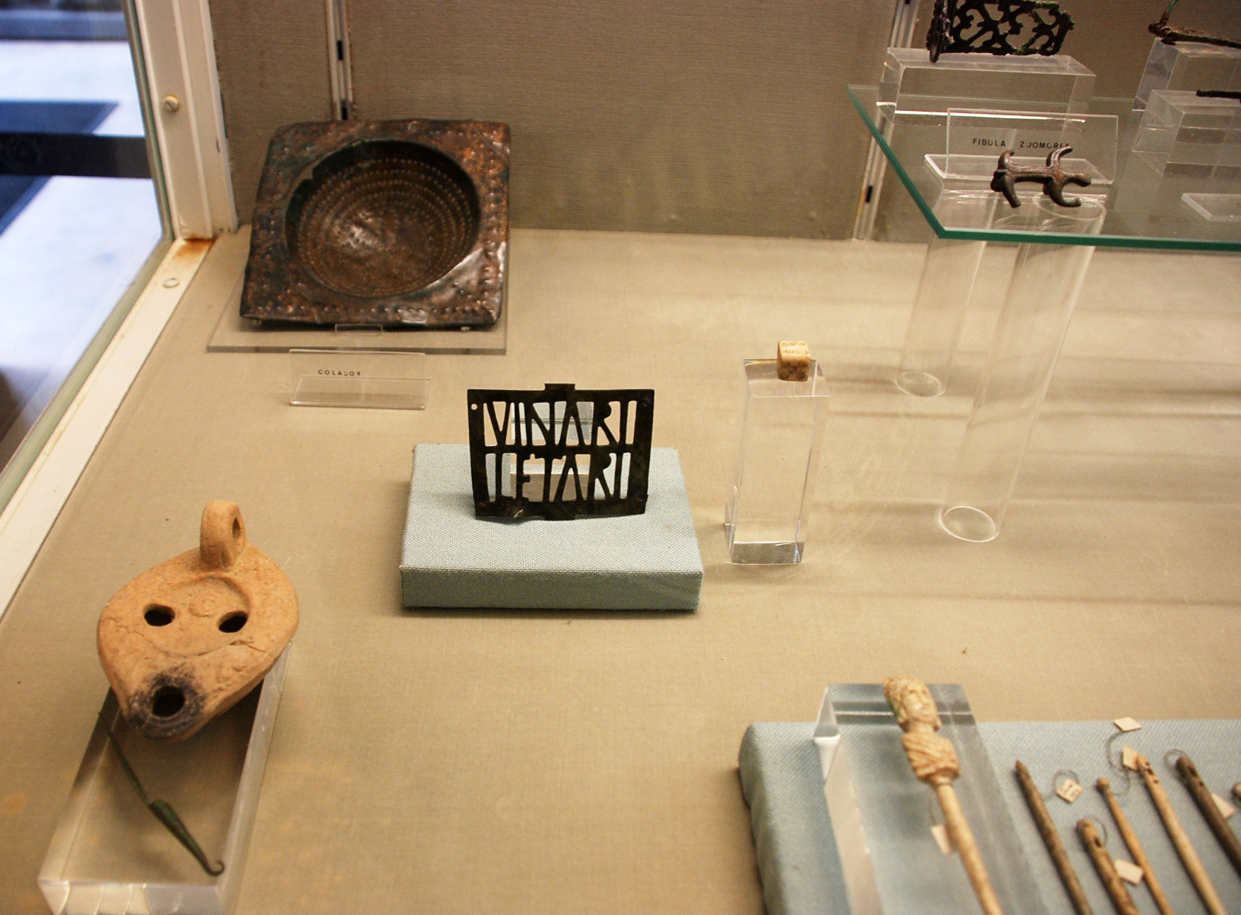 Archaeological museum of San Pedro in Saldaña (Palencia, Castile and León).